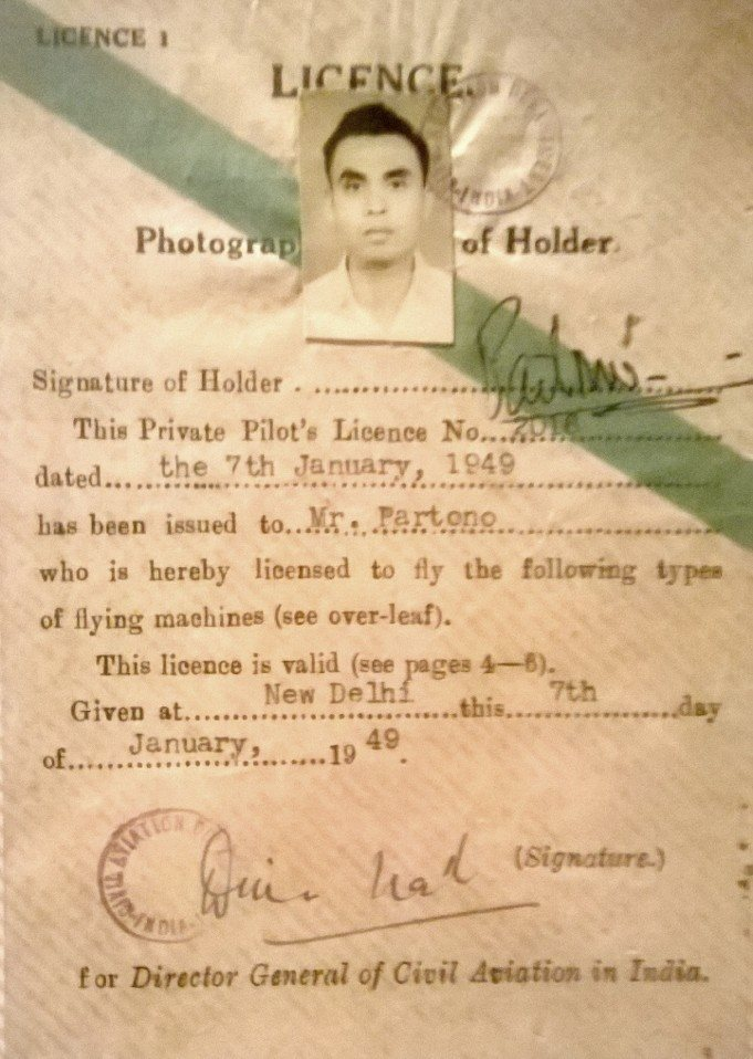 Partono Parwitokusumo's Pilot Licence from Delhi as photographed from the family album